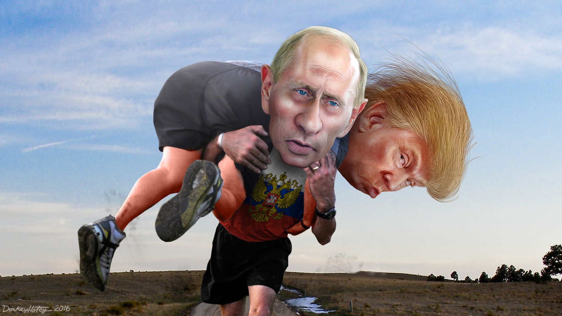 Is Vladimir Putin helping Donald Trump win the race for President of the United States? This caricature of Donald Trump was adapted from Creative Commons licensed images from Michael Vadon's flickr photostream. This caricature of Vladimir Putin was adapted from a Creative Commons licensed photo from the Russian Presidential Press and Information Office available via Wikimedia. This background was adapted from a Creative Commons licensed photo from Jeff Ruane's Flickr photostream. The Russian symbol was adapted from a photo in the public domain available via Wikimedia. This bodies were adapted from a Creative Commons licensed photo from The U.S. Army's Flickr photostream.